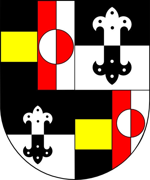 Coat of arms (shield only) of Franz Ferdinand von Kuenburg, bishop of Ljubljana, Slovenia (1701 - 1711), archbishop of Prague (1711 - 1731).